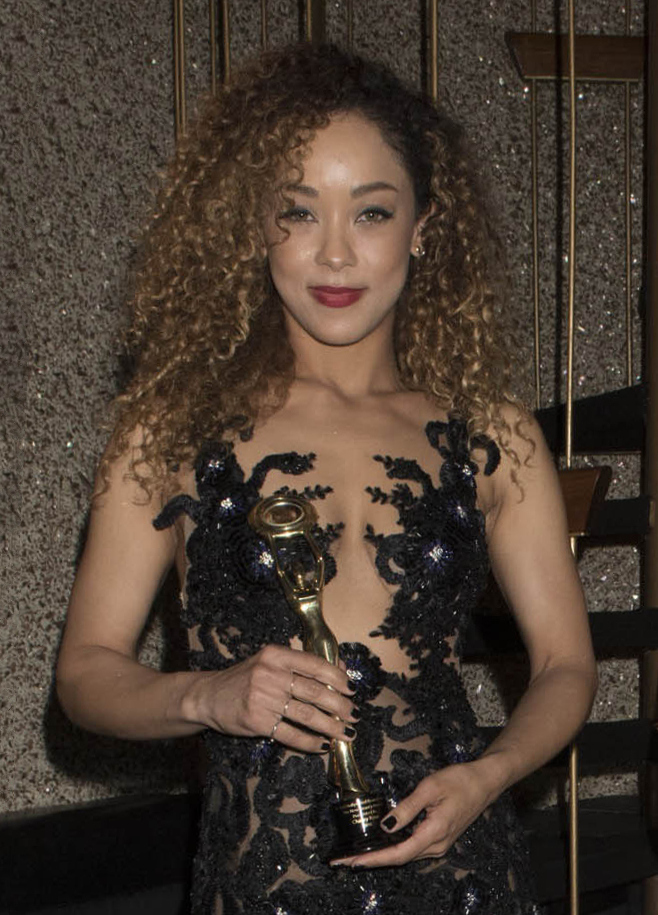 2016 New Beauty Recipients: Chaley Rose